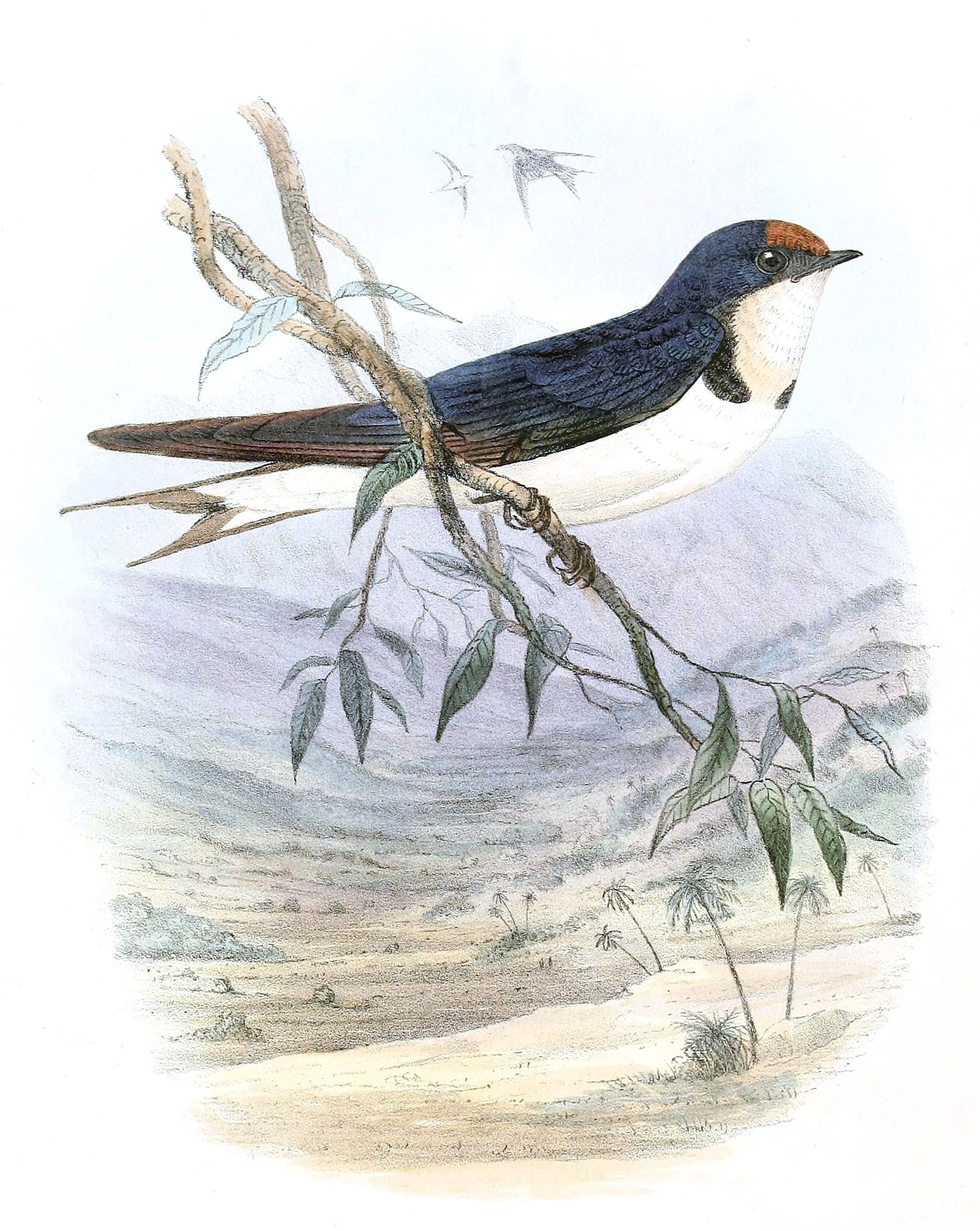 « Hirundo aethiopica » = Hirundo aethiopica (Ethiopian Swallow)